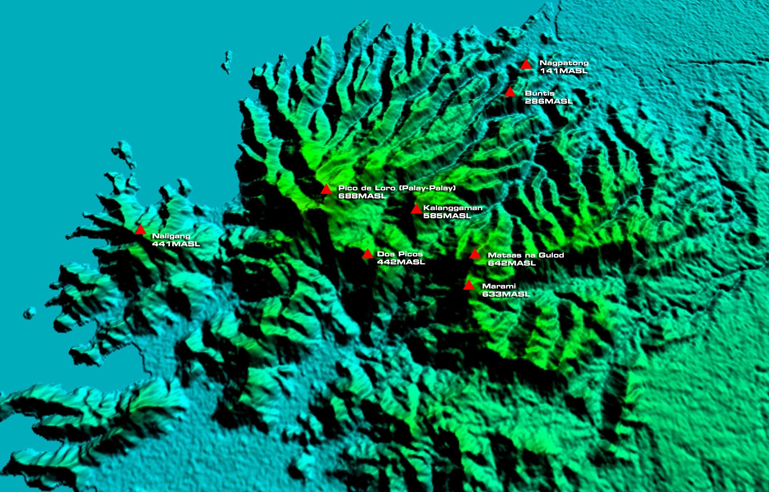 Mataas na Gulod - Palay Palay Protected Landscape Relief Map on 1 arc second/30-meter resolution from SRTM released September 23, 2014. Elevation and coordinates information by Schadow1 Expeditions Rectangular Projection based on coordinates N: 14.30201° N S: 14.14738° N W: 120.55443° E E: 120.81141° E